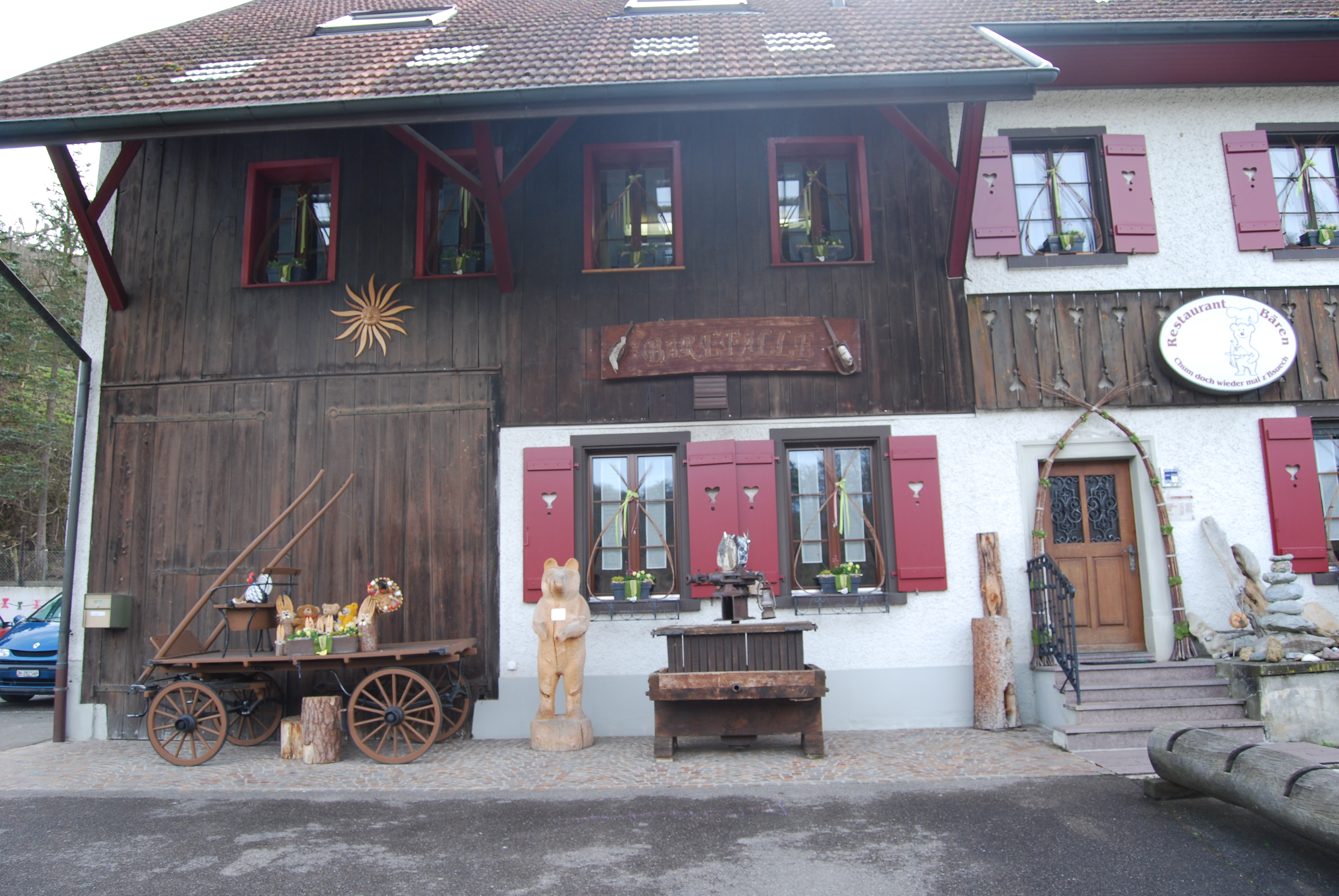 Restaurant Bären at Fisibach, canton of Aargau, SwitzerlandEsperanto: Restoracio Bären en Fisibach, Kantono Argovio, Svislando